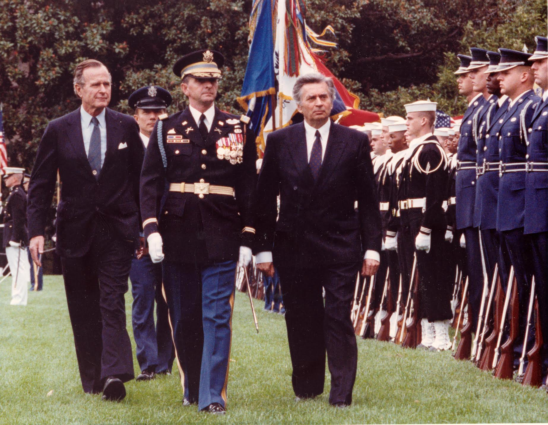 U.S. President George H. W. Bush with Hungarian Prime Minister József Antall in White House's garden in October 1990. Photograph was provided to the Antall family's archives by Bush Archives.